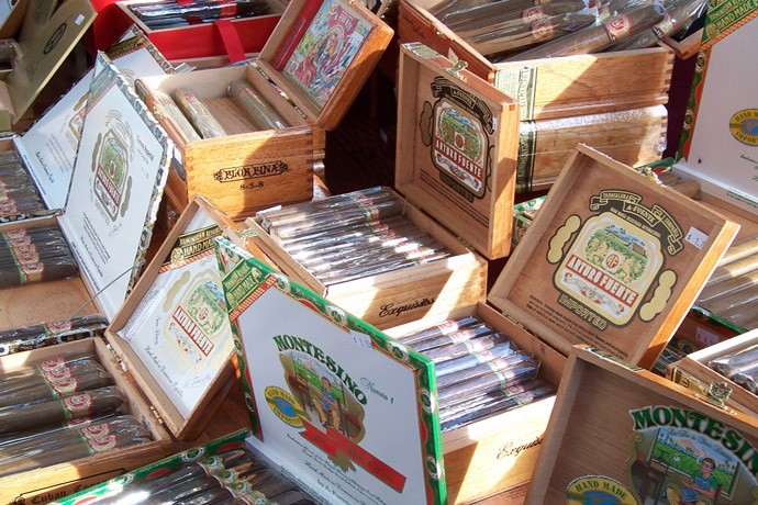 File was taken on our digital camera at 2005 Tampa Cigar Heritage Festival. Attempted to select "public domain" under licensing, but would not allow me to. Verloren Hoop 16:32, 13 July 2006 (UTC)